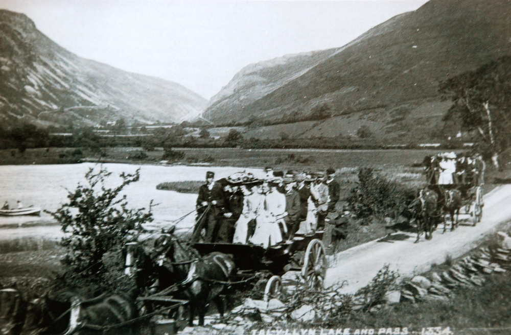 Corris Railway charabancs on the Grand Tour passing Talyllyn